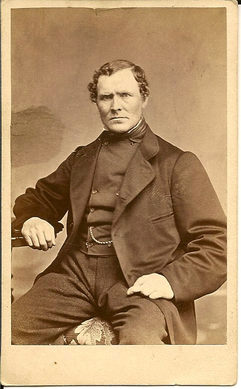 Swedish politician from late nineteenth century